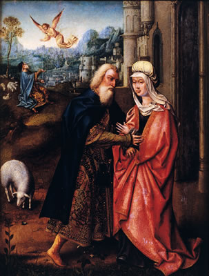 Saint Joachim (Henrique Alemão - supposed effigy of the king of Poland Władysław III) and Saint Anne